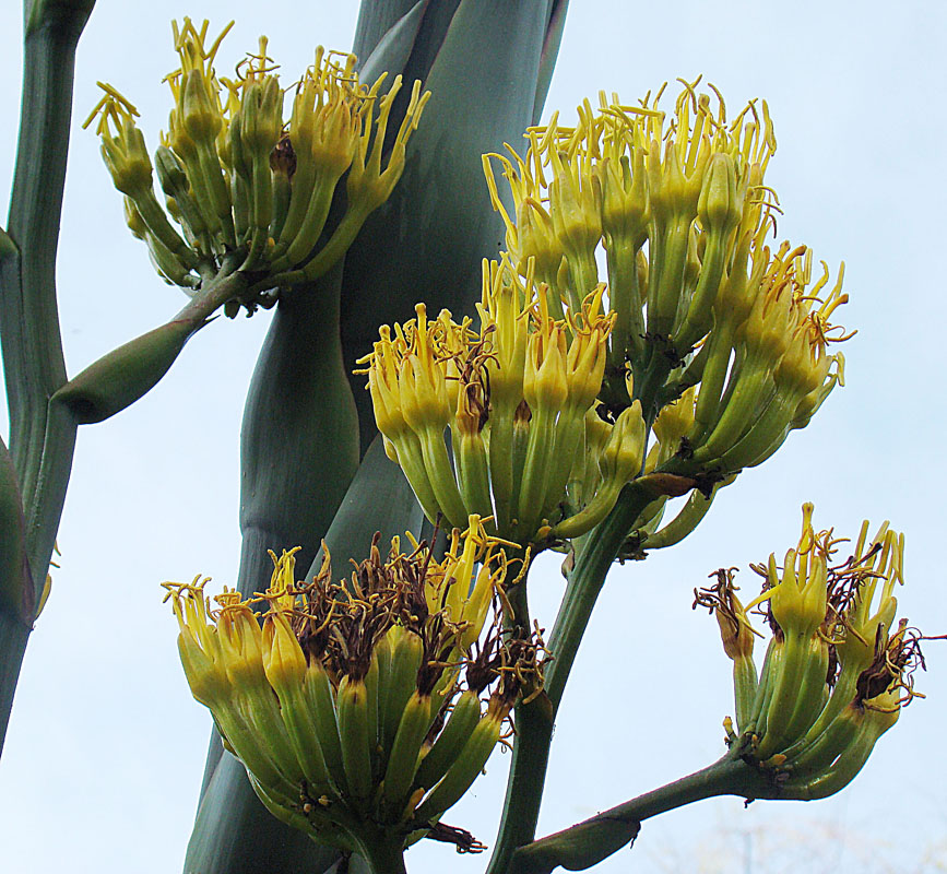 One of the Mexican "Pulque Magueys". UC Berkeley Botanical Gardens. In context at